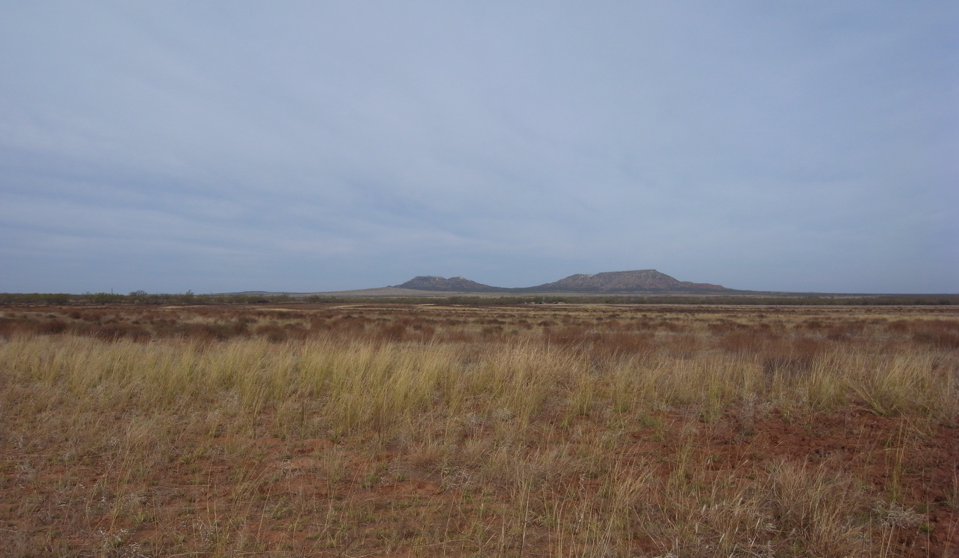 Double Mountain of Stonewall County, Texas.